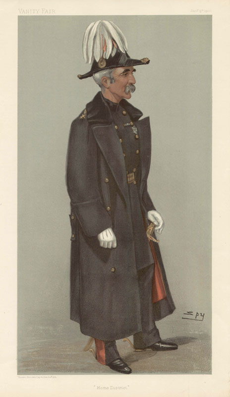 Men of the Day No.0832: Caricature of Maj-Gen Sir Henry Trotter KCVO. Caption reads: "Home District"